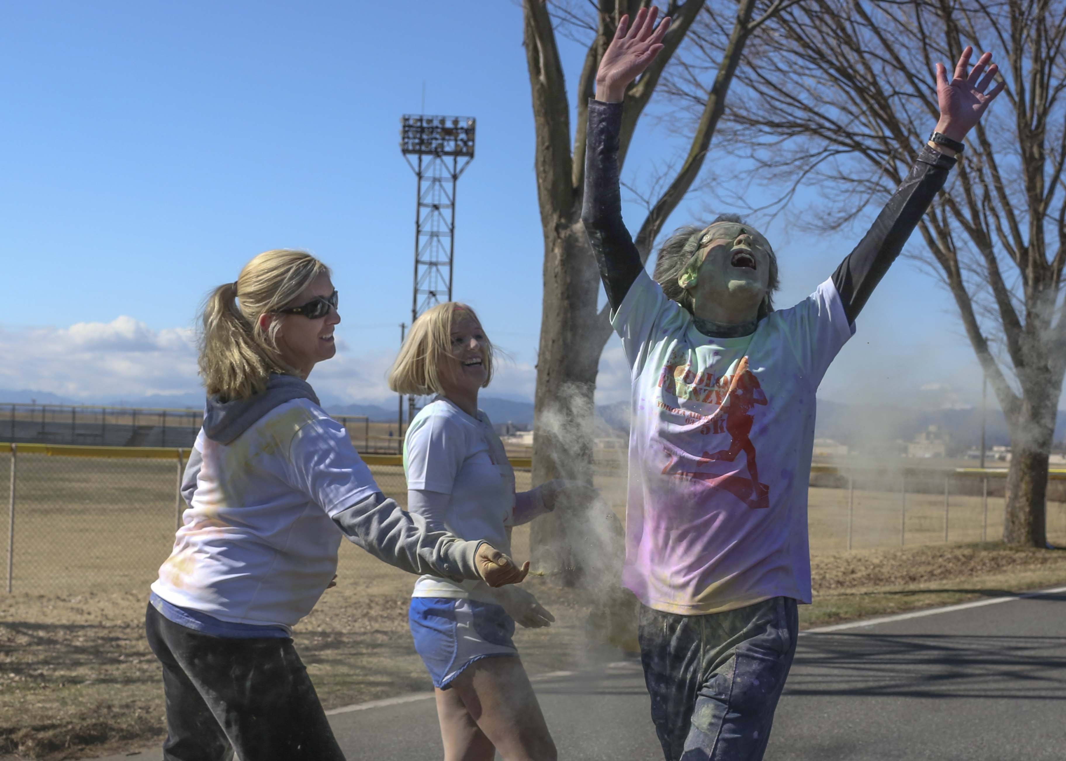 A runner relishes the colors sprinkled on him during the Color Frenzy 5K Run at Yokota Air Base, Japan, March 15, 2014. For the first time, Yokota partnered with the Japanese counterparts in a bilateral celebration of global women's history. (U.S. Air Force photo by Airman 1st Class Soo C. Kim/Released)